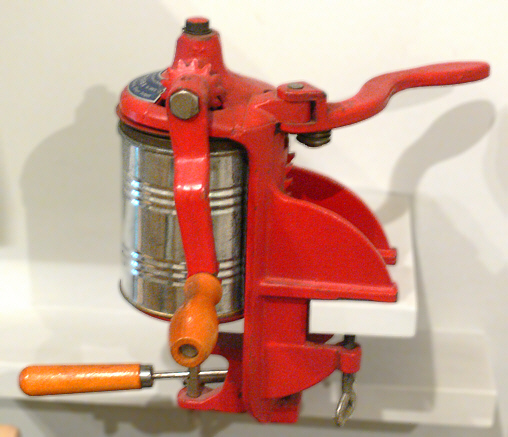 Can closing machine "Simplex" Landesmuseum Württemberg (Außenstelle Museum für Volkskultur in Württemberg, Waldenbuch) E.8, Inv. Nr. VK 1980/200